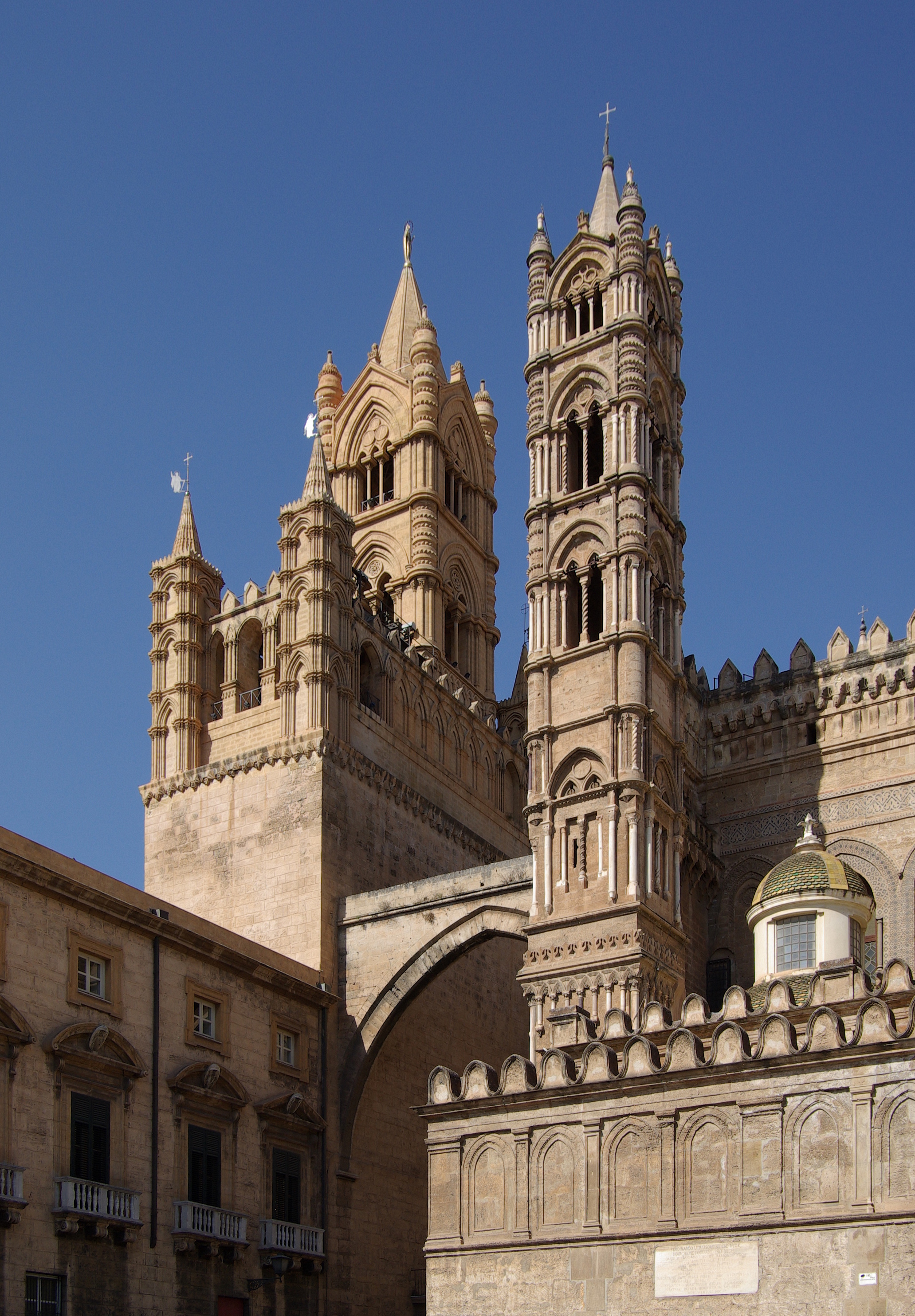 Italy, Sicily, Palermo, cathedral